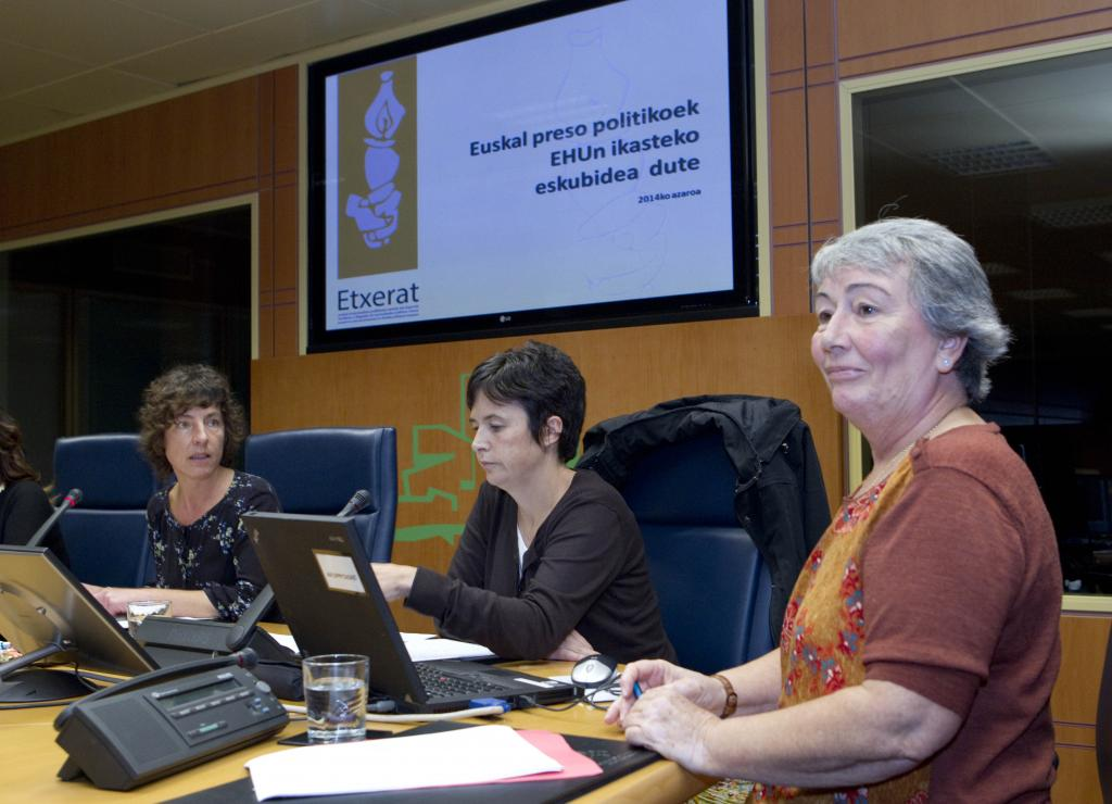 Etxerat Ikasketa Batzordea